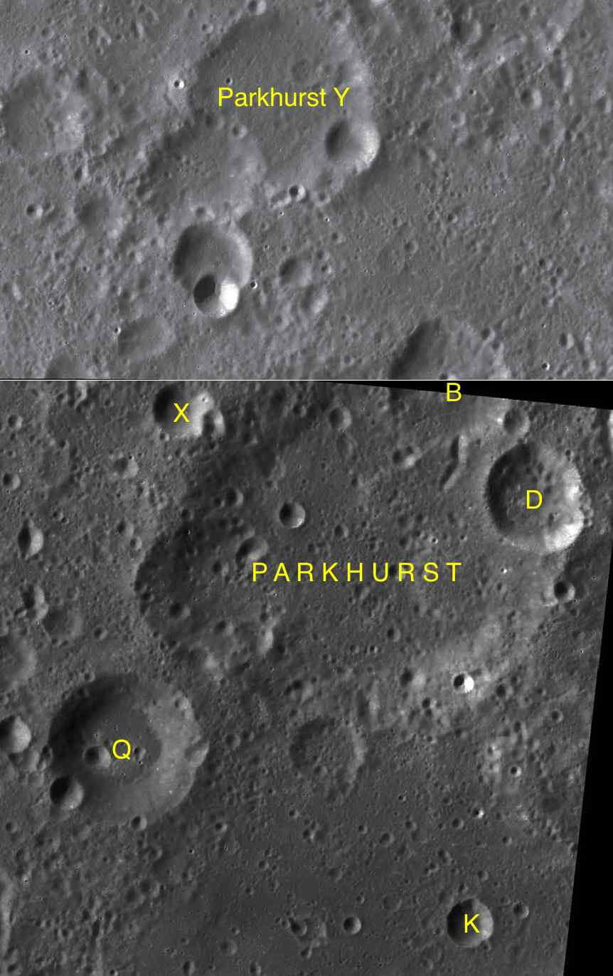 Parts of the charts LAC-100, LAC-116 used for the presentation